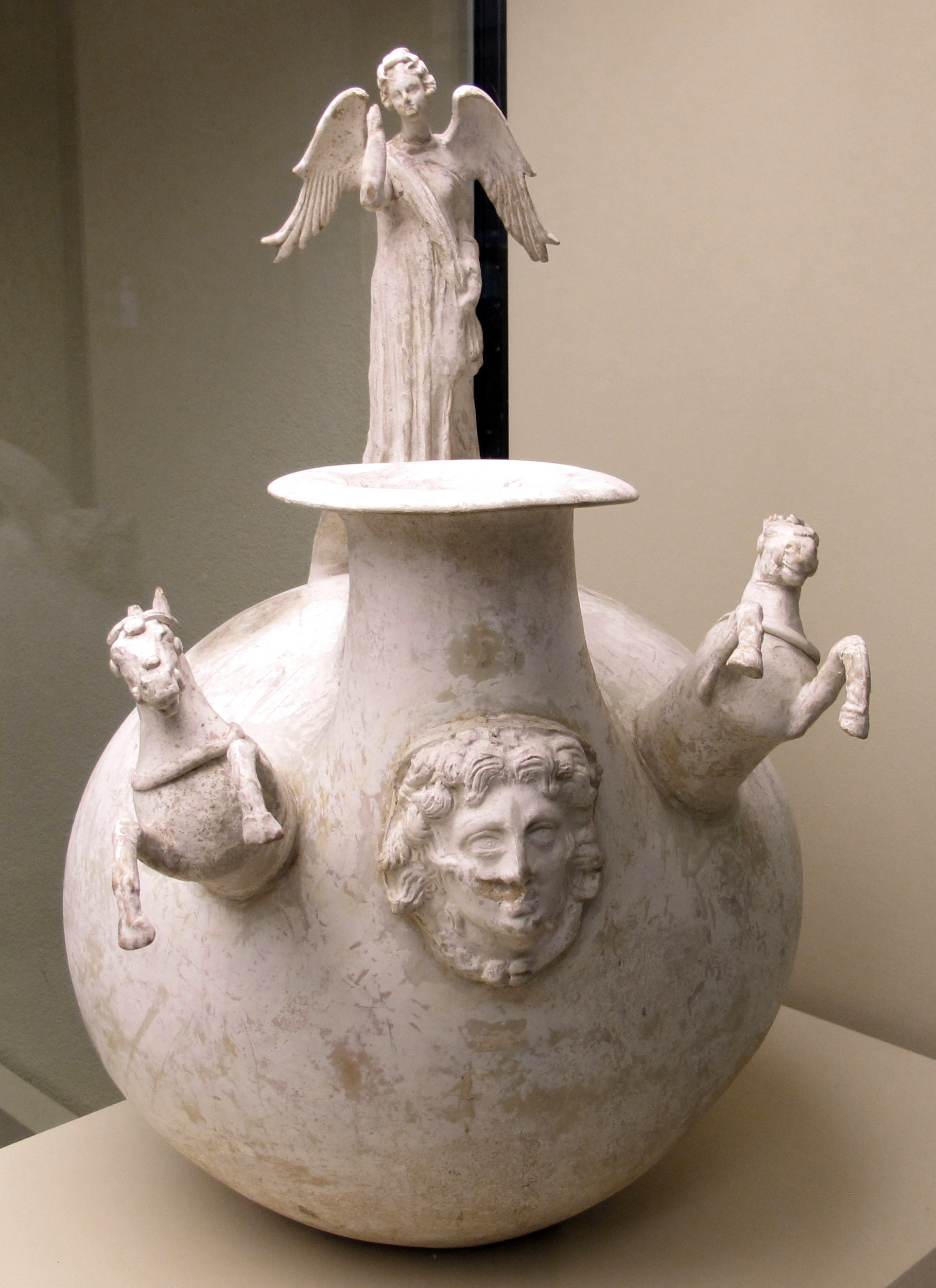 Greek antiquities in the Musée d'art et d'histoire de Genève